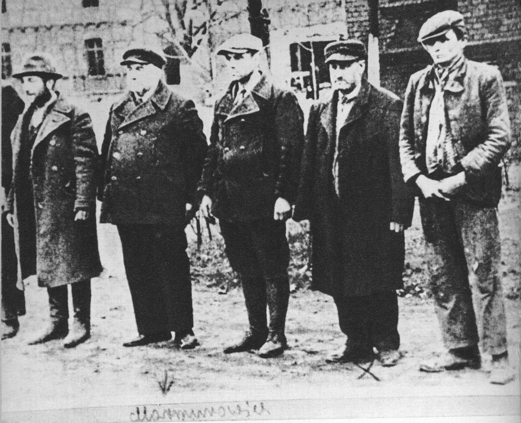 German internment camp in Fort VII of Toruń Fortress. Polish prisoners during the roll call. In the first months of German occupation few thousand Poles were imprisonment in Fort VII. At least 600 of them were executed in Barbarka forest.